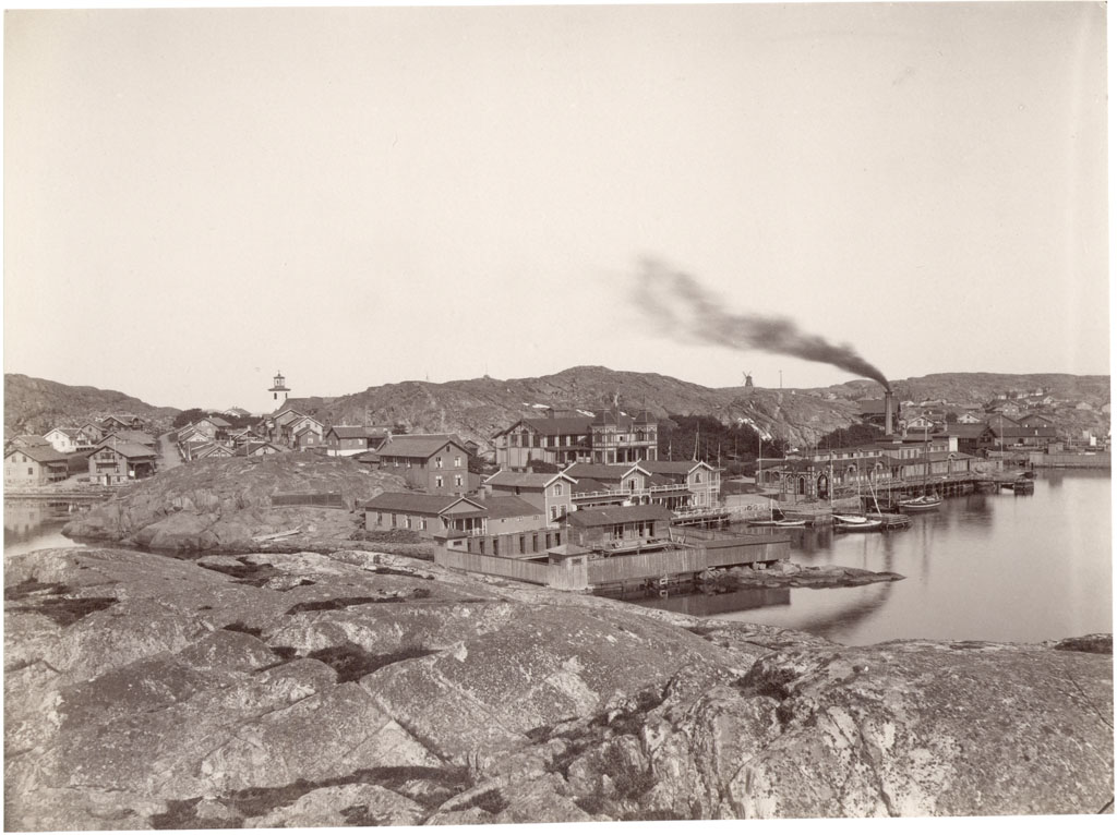 View over Lysekil at the time for a royal visit in 1883.